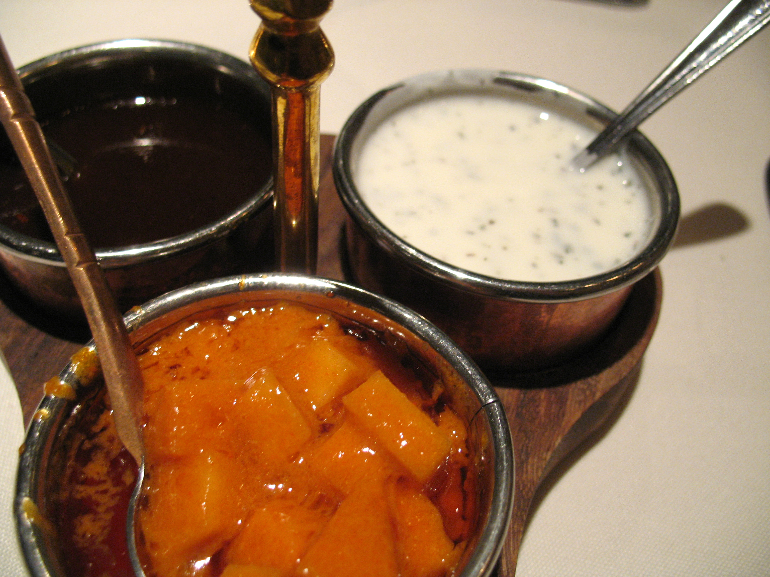 Chutneys at le Taj.